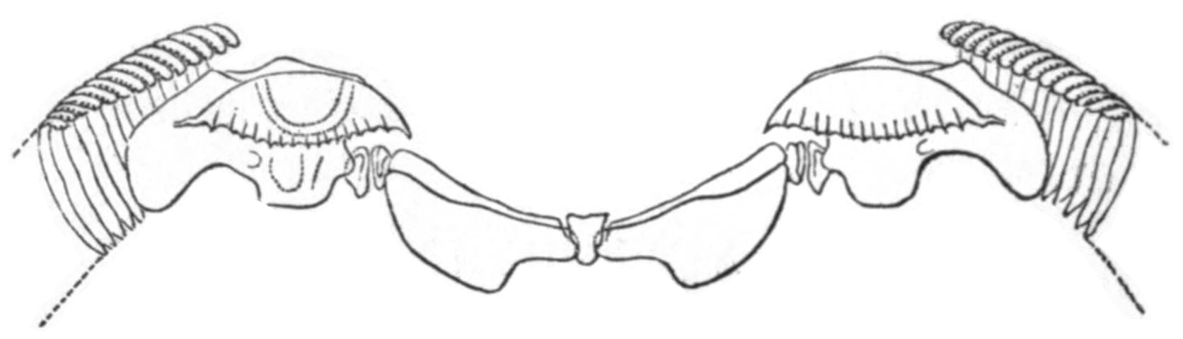 One row of teeth in the radula of Theodoxus fluviatilis. Photograph available at